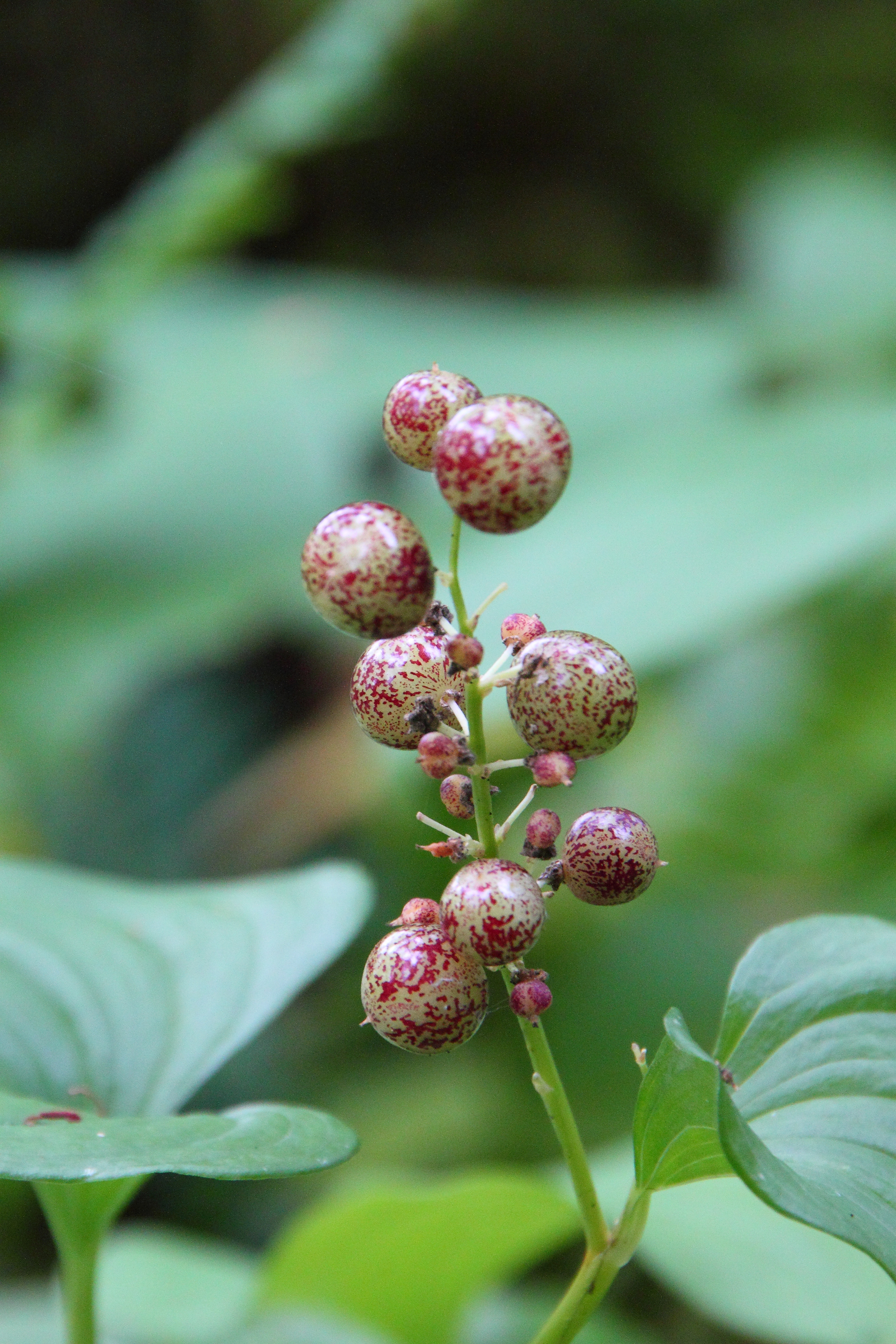 Snakeberries (Maianthemum dilatatum) near Ketchikan, Alaska